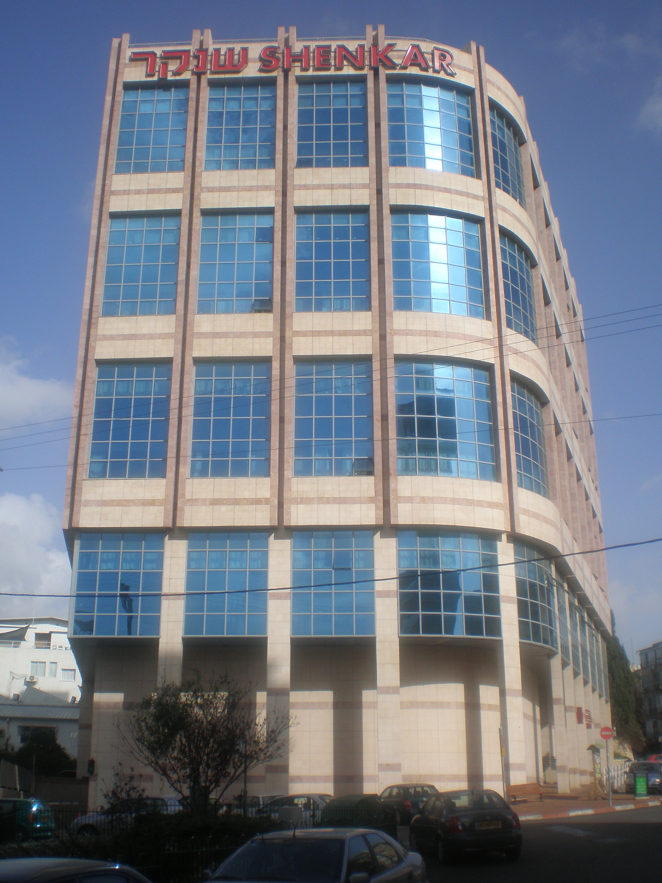 Shenkar College, Ramat Gan, Israel